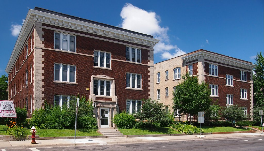 1926 & 1920 3rd Ave S (respectively The Lonoke and an unnamed apartment building, both built in 1915), Stevens Square Historic District, Minnesota, USA. Viewed from the east-southeast at the corner of 3rd and Franklin Aves.